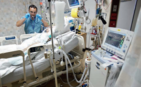 mechanical ventilaror